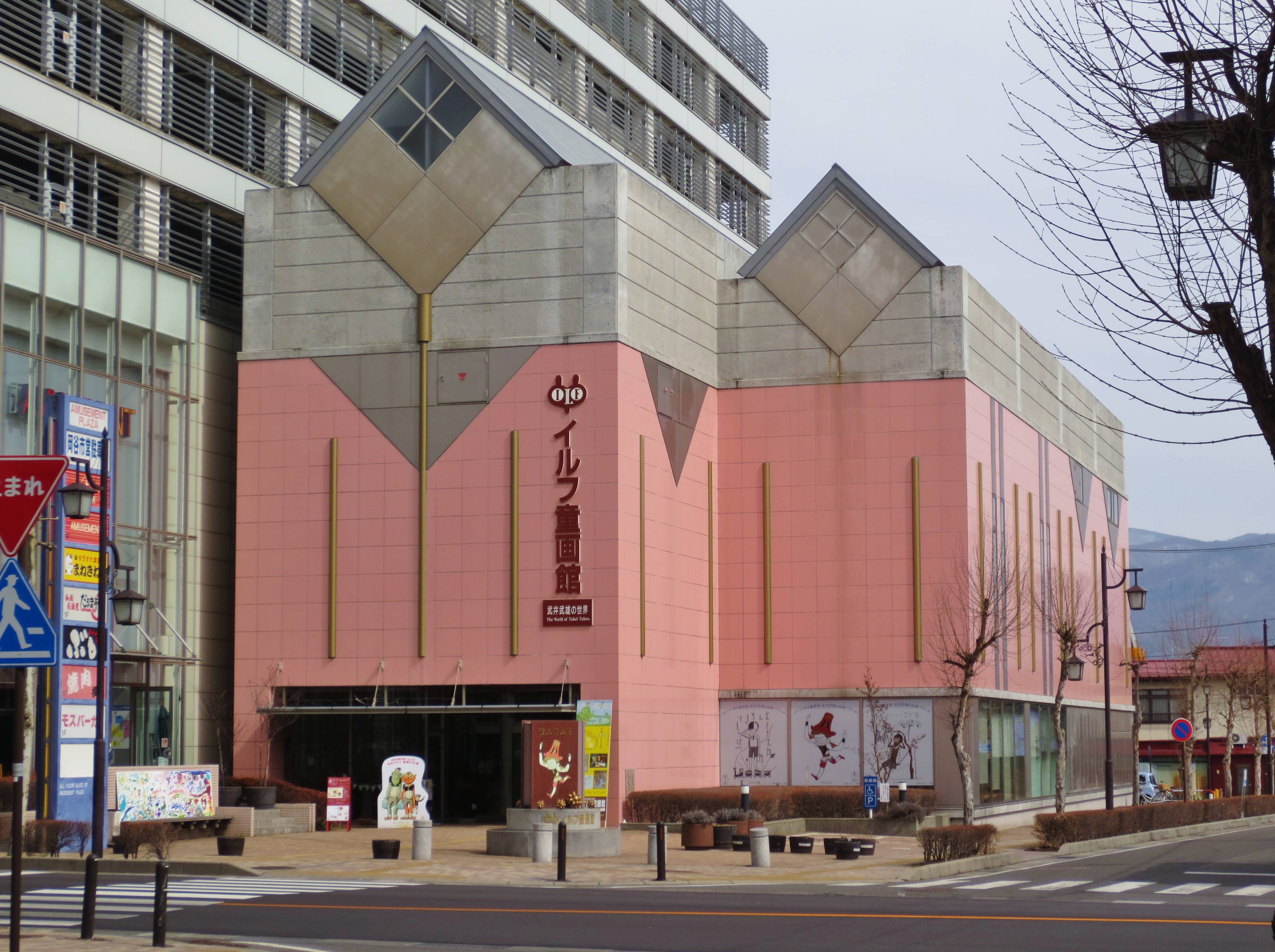 ILF Doga Museum.